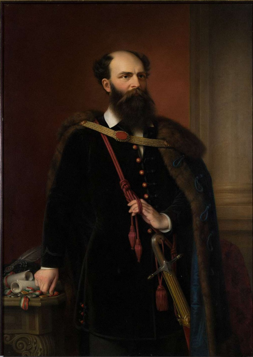 Count Lajos Batthyány de Németújvár (1807–1849), Hungarian landowner, politician and the first prime minister in 1848